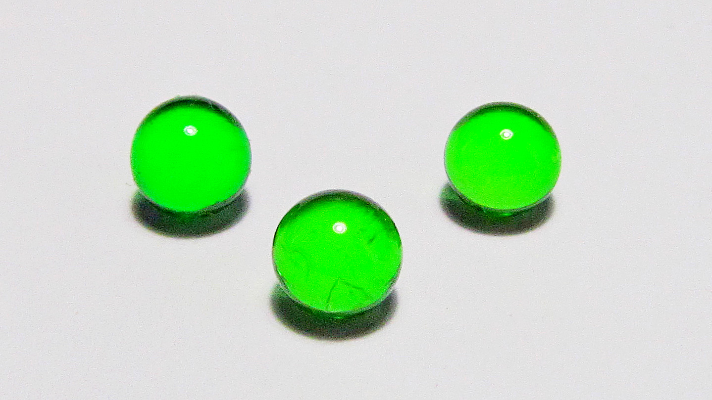 Retinol